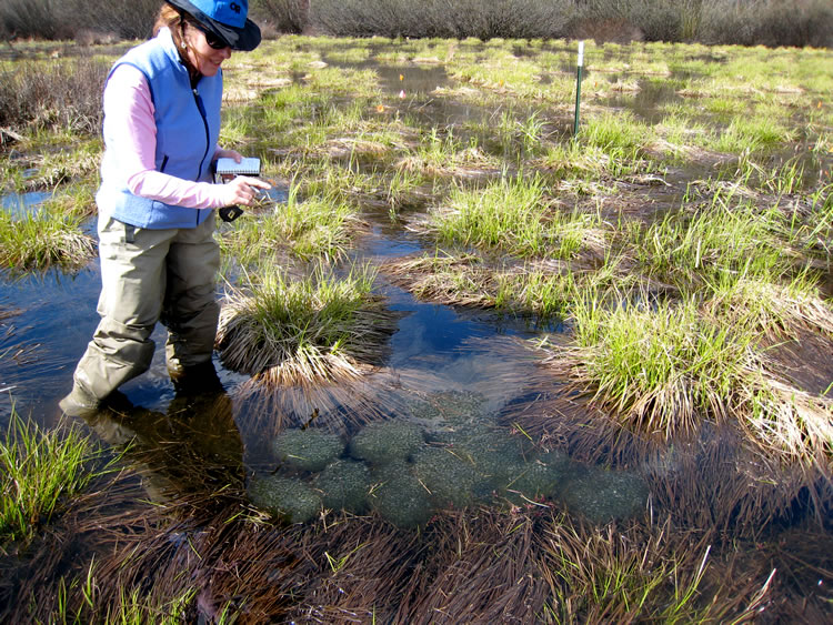 Oregon Spotted Frog Surveys: Biologists Anderson and Hallock conducted Oregon spotted frog egg mass surveys this week at Trout Lake. Habitat conditions this spring have been very favorable with above normal water levels in traditional breeding locations. Annual egg mass counts provide information on population health and habitat condition. This year’s surveys are not yet complete, but preliminary results indicate a good season for egg mass production. Biologists Anderson and Hallock conducted Oregon spotted frog egg mass surveys this week at Trout Lake.